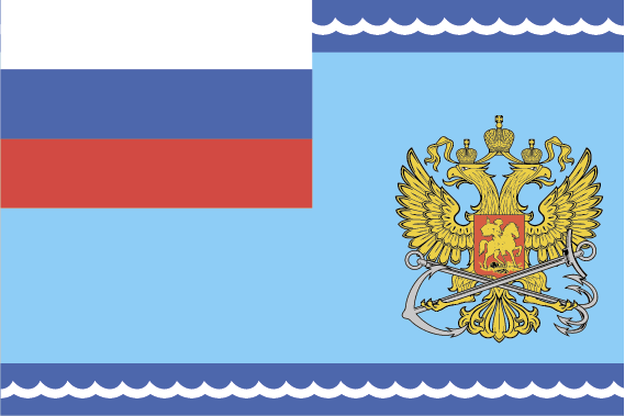 Flag of Rosmorrechflot